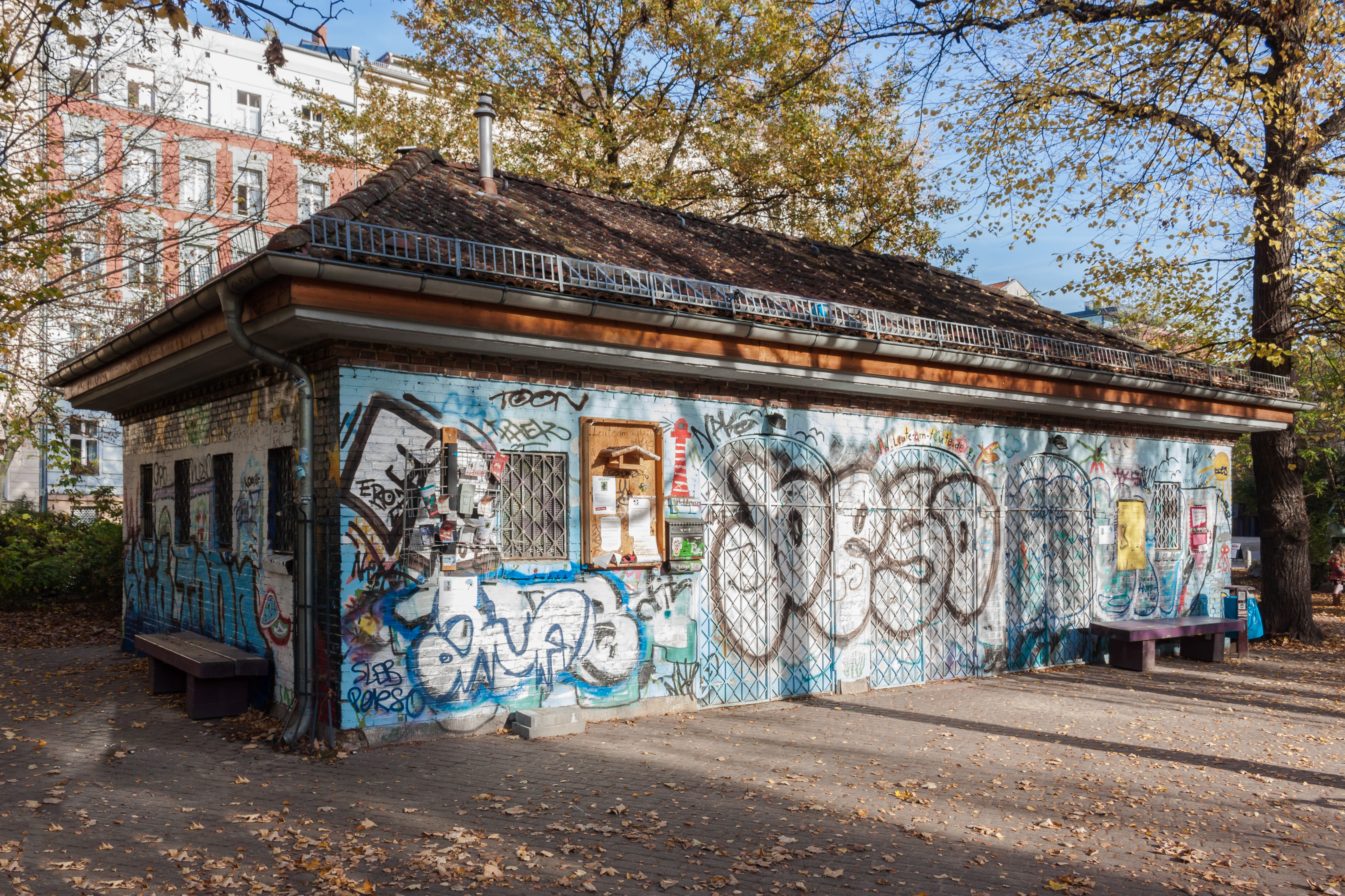 Platzhaus of the Teutoburger Platz in Berlin.